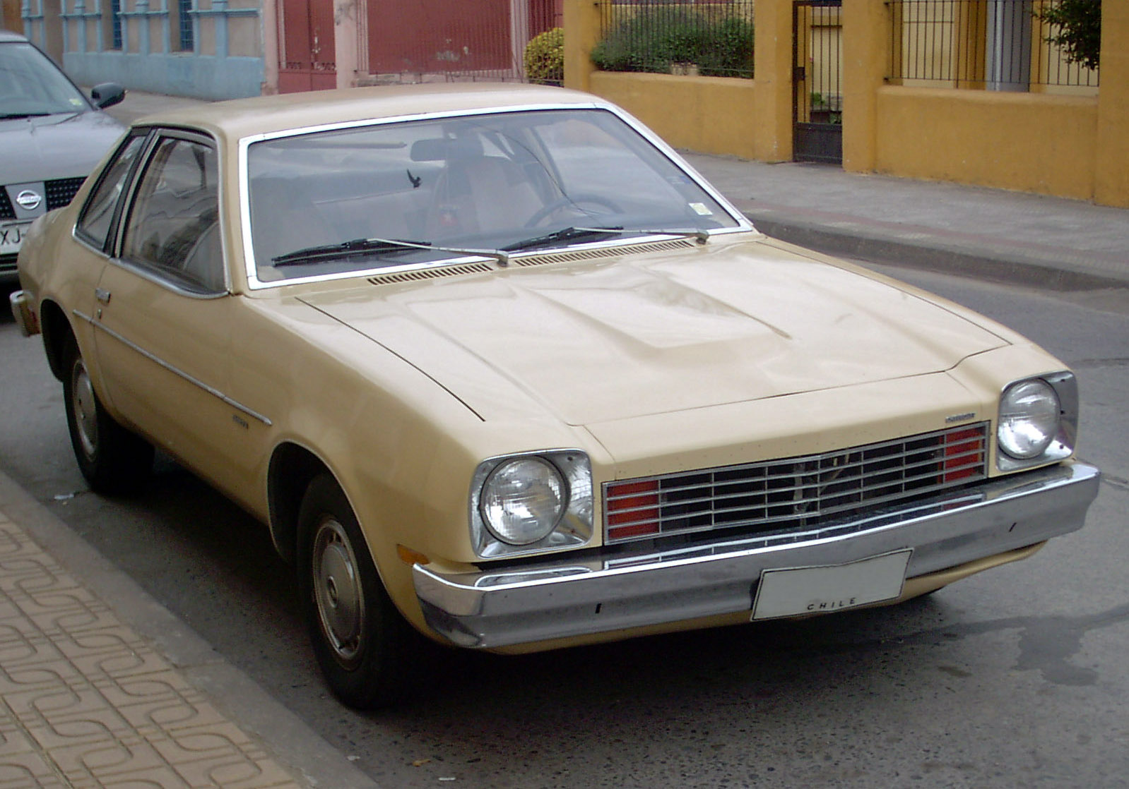 1977 Chevrolet Monza Towne Coupe in Chile